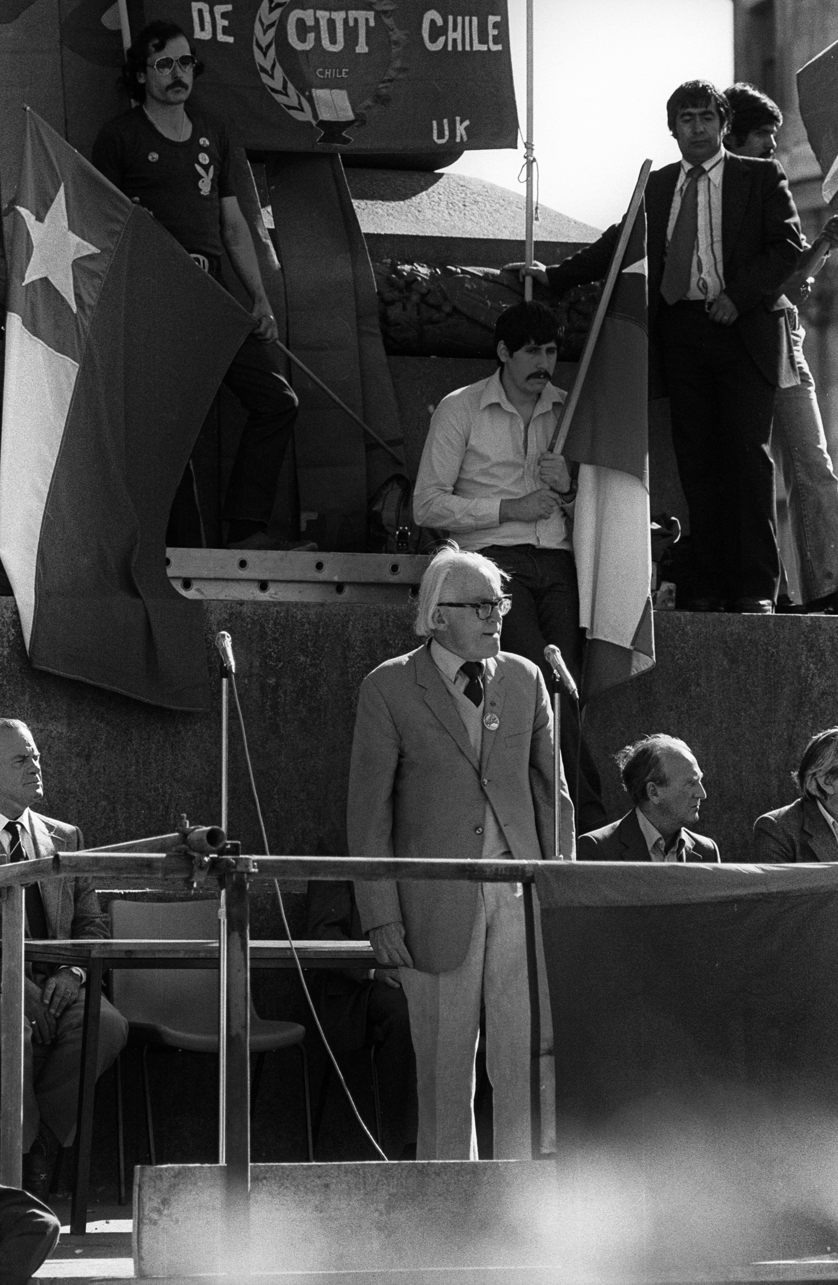 Michael Foot with the Labour Party, Chile Solidarity Campaign National Demonstration, Trafalgar Square - London.